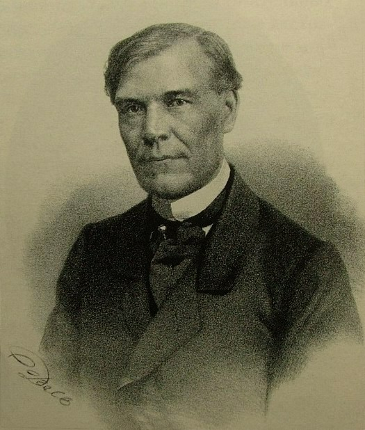 Tatarinov Valerian Alexeevitsch (1816-1871)